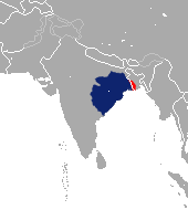 Northern Plains Gray Langur (Semnopithecus entellus) range (blue — native, red — introduced)